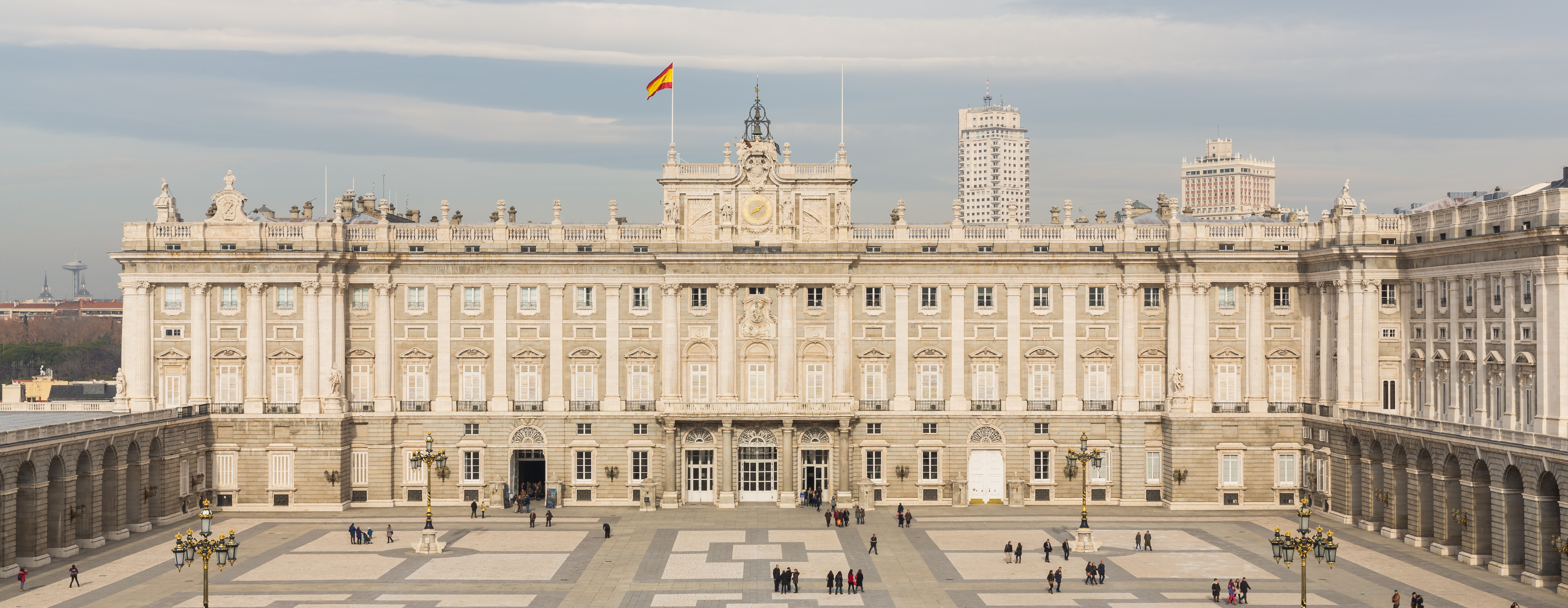 Royal Palace, Madrid, Spain